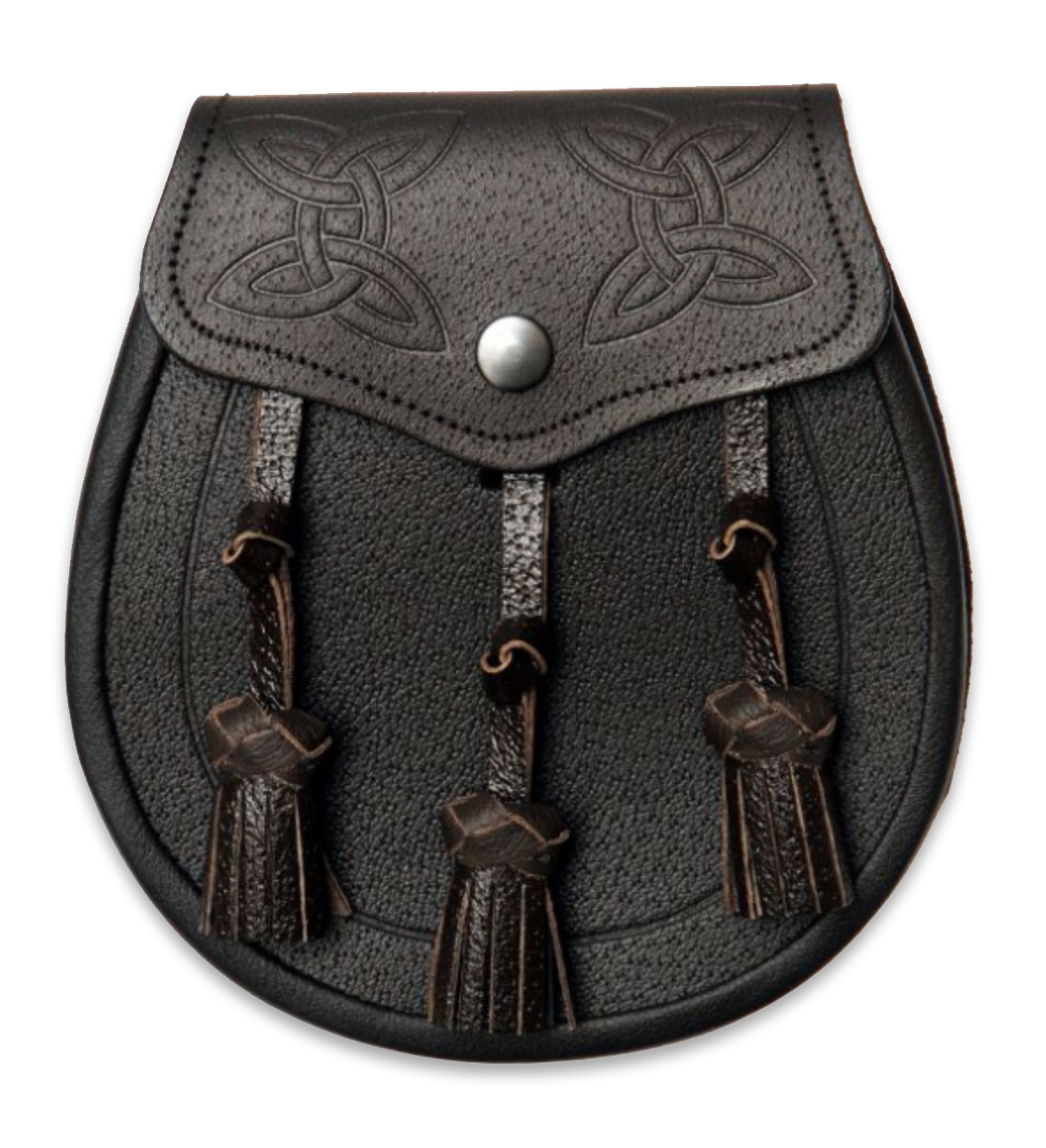 A traditional leather day sporran with Celtic knot-work design